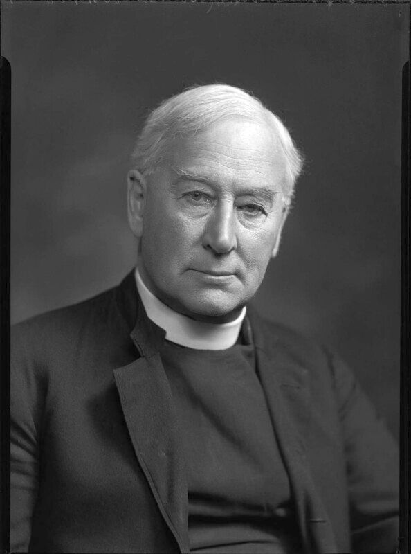 Eric Rede Buckley by Lafayette, half-plate nitrate negative, 17 November 1933